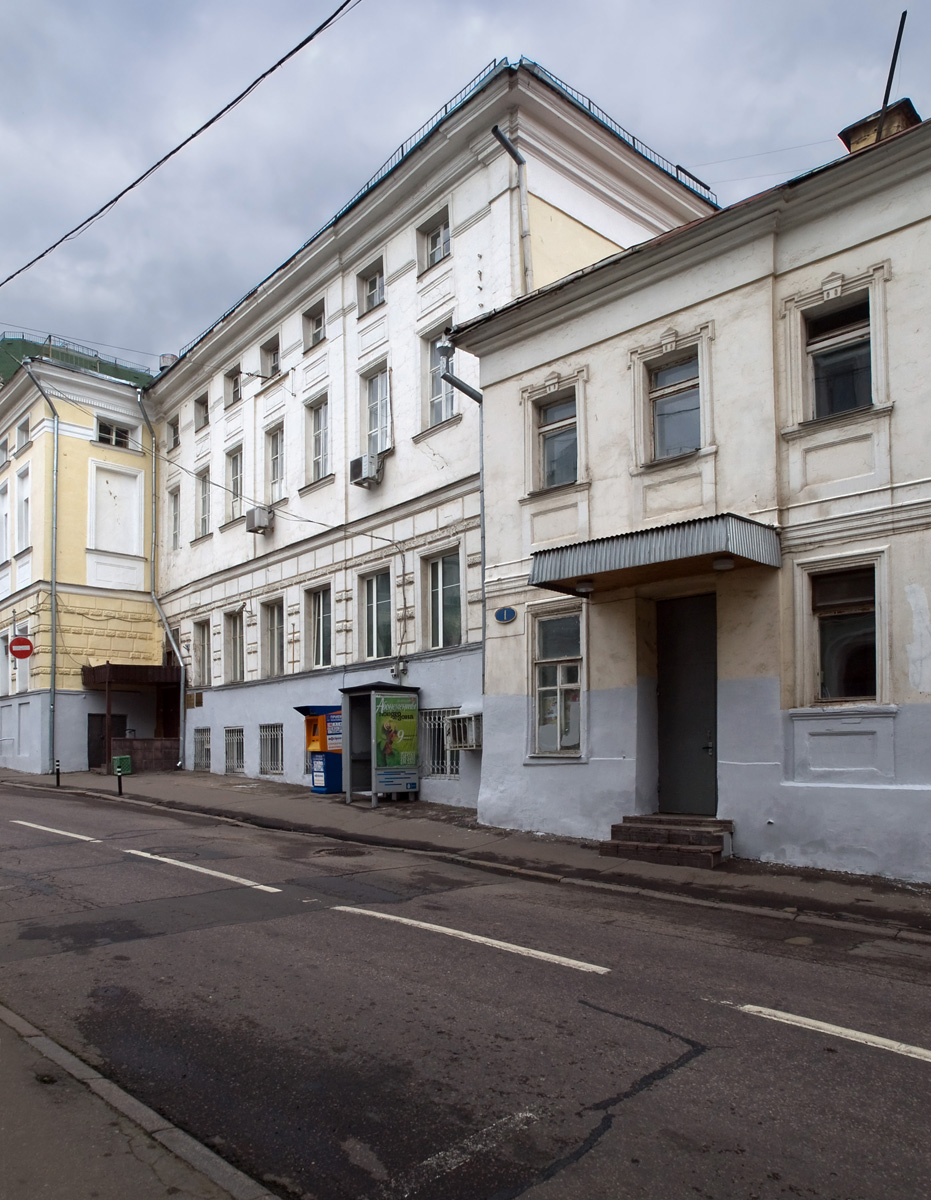 Kuznetsky Most, corner of Bolshaya Dmitrovka St., Moscow